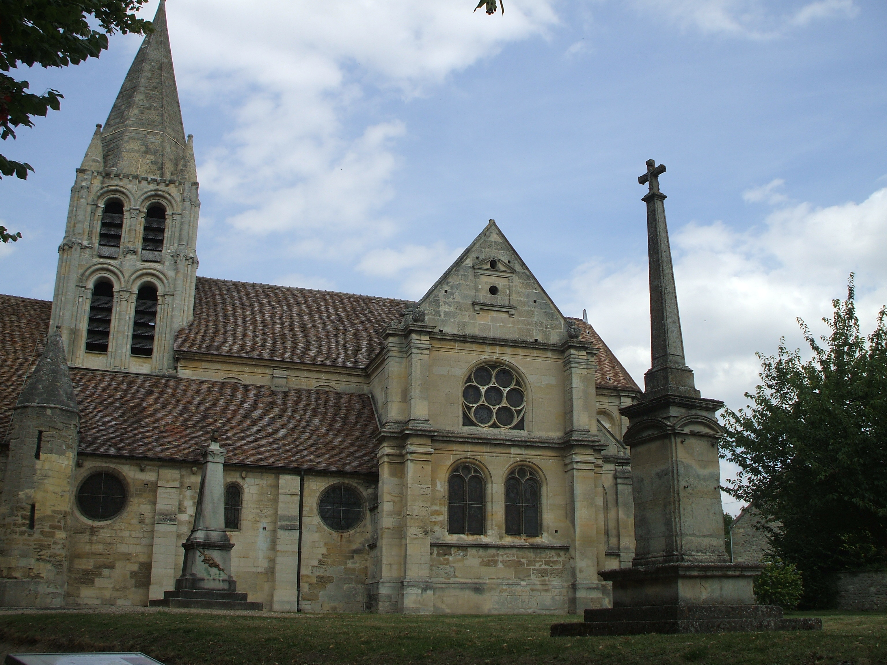 Church ennery